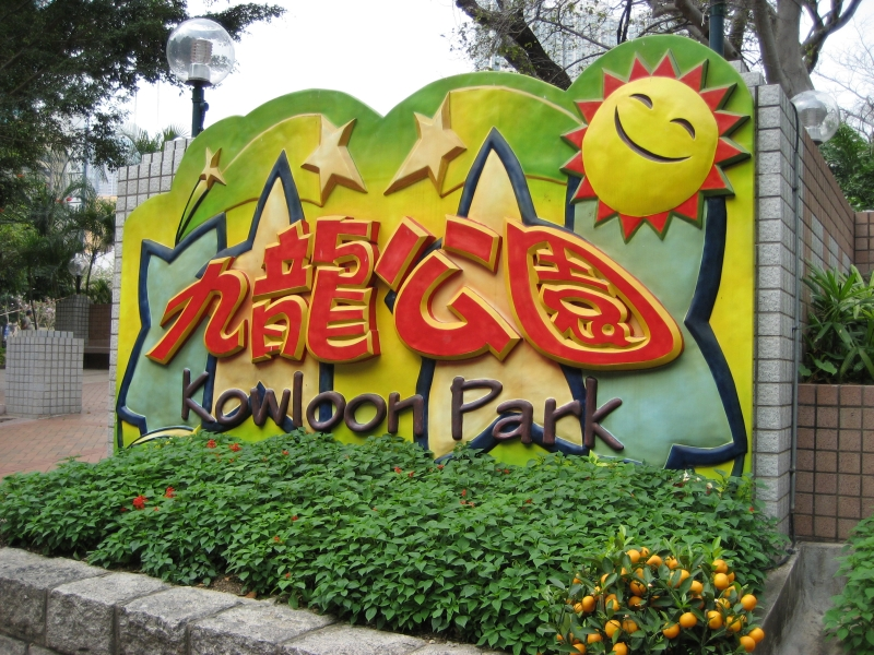 Kowloon Park